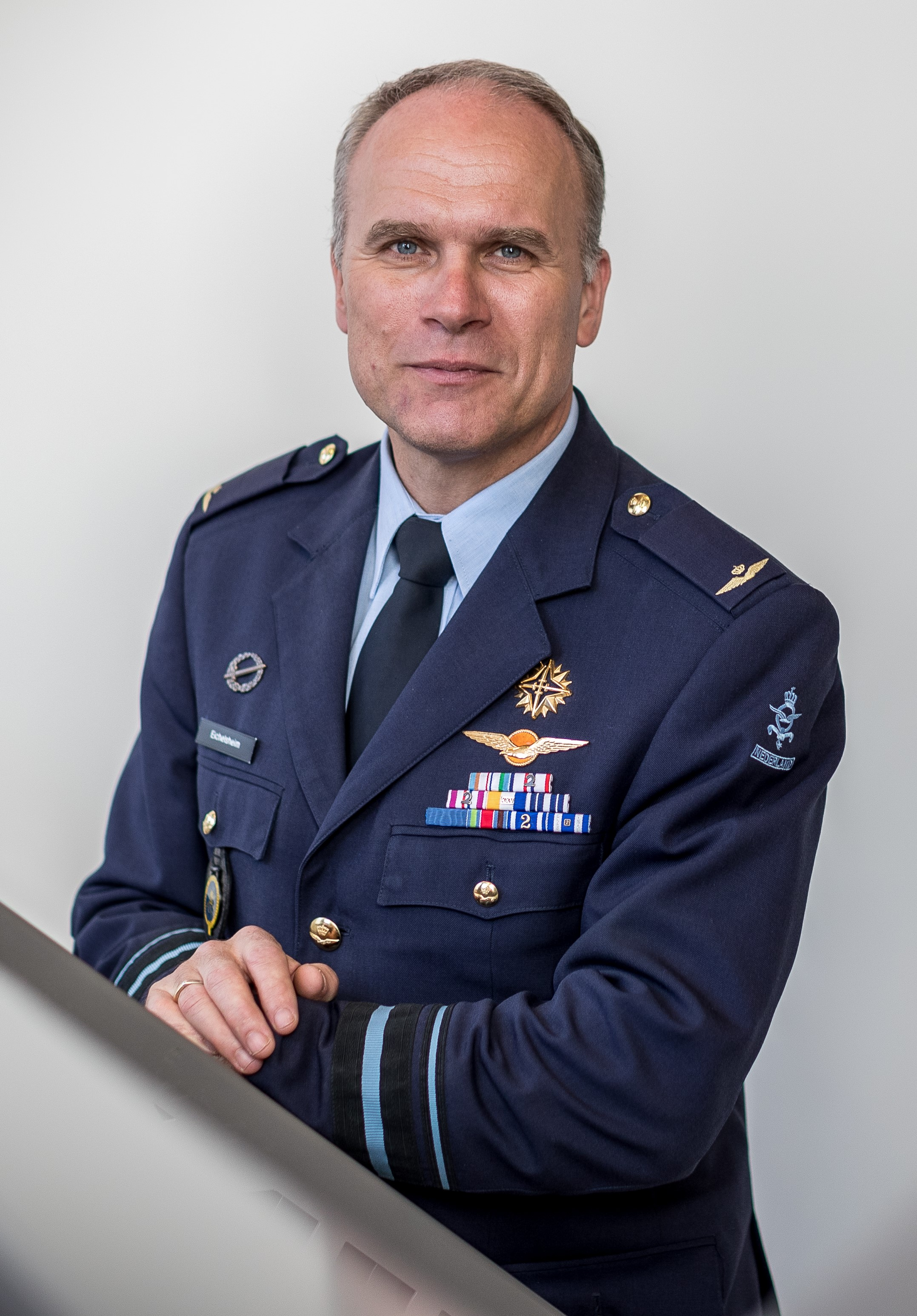 Major General Onno Eichelsheim RNLAF 2018